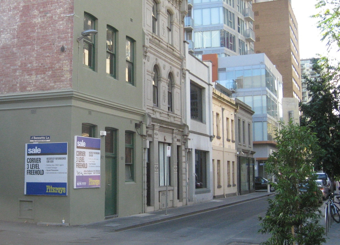 Buildings in Little Lonsdale Street, numbers 118-162, between Exploration Lane and Bennetts Lane. This small streetscape is a mixture of buildings once used as dwellings, shops, small factories and a hotel. It is typical of what the entire Little Lon area looked like in the late nineteenth century.